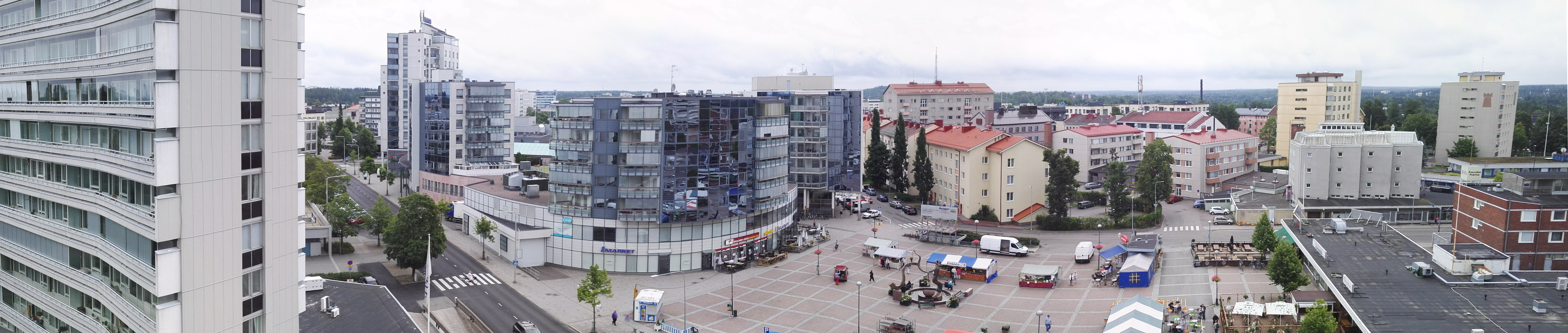 City centre of Kouvola, Finland.